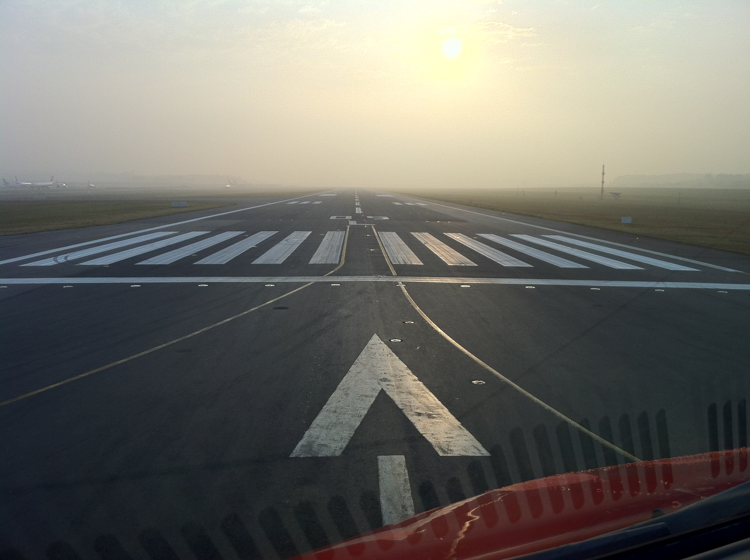 Oceanair 6304 cleared for takeoff 09L